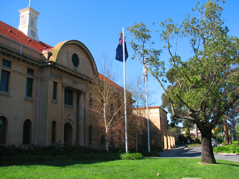 City of Burnside Council Chambers